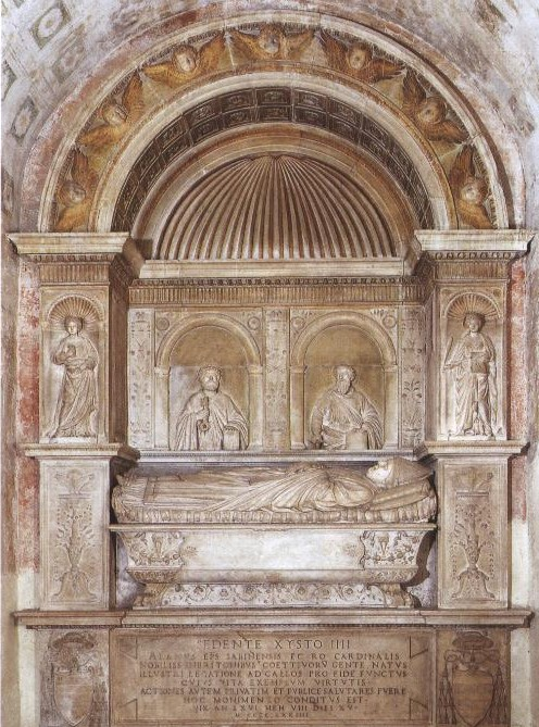 Tomb of Alano Coetivy (XV cent)